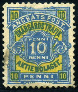 Steam ship postage stamp, used on mail carried on steamships in the archipelago, Finland, late 1800s